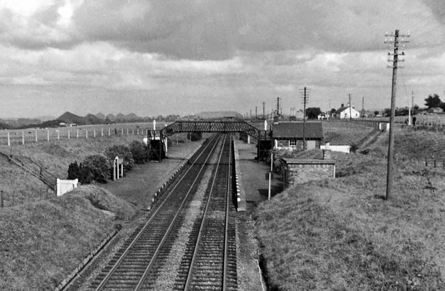 Breich Station. View NE, towards Edinburgh; ex-Caledonian Glasgow (Central) - Edinburgh (Princes St.) main line. The station and line are still open, but since Princes St. was closed (6/9/65) trains go to Edinburgh Waverley